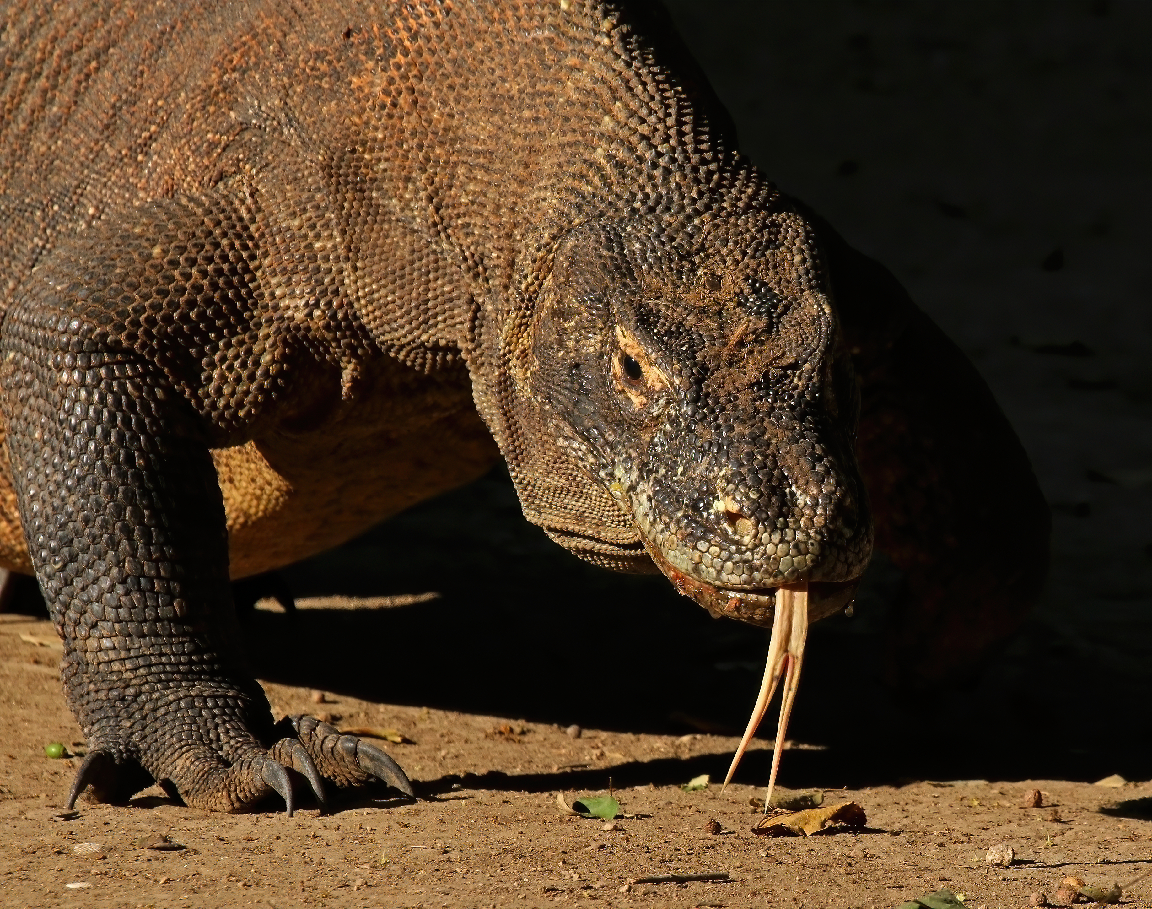 Komodo dragon (Varanus komodoensis), Komodo National Park, Indonesia